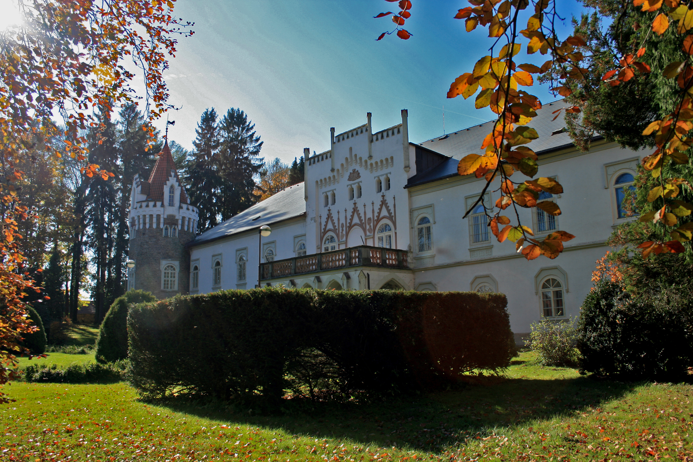 Castle Herálec, Czech Republic